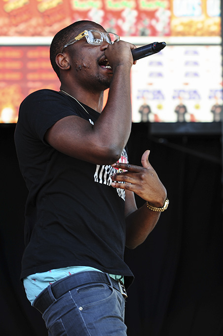 Parklife Festival 2012